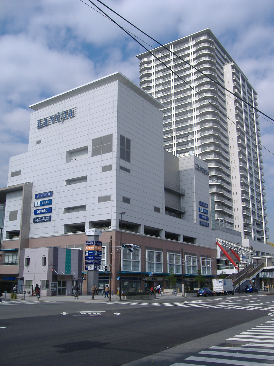 La Vista Shinsugita (Yokohama, Japan)